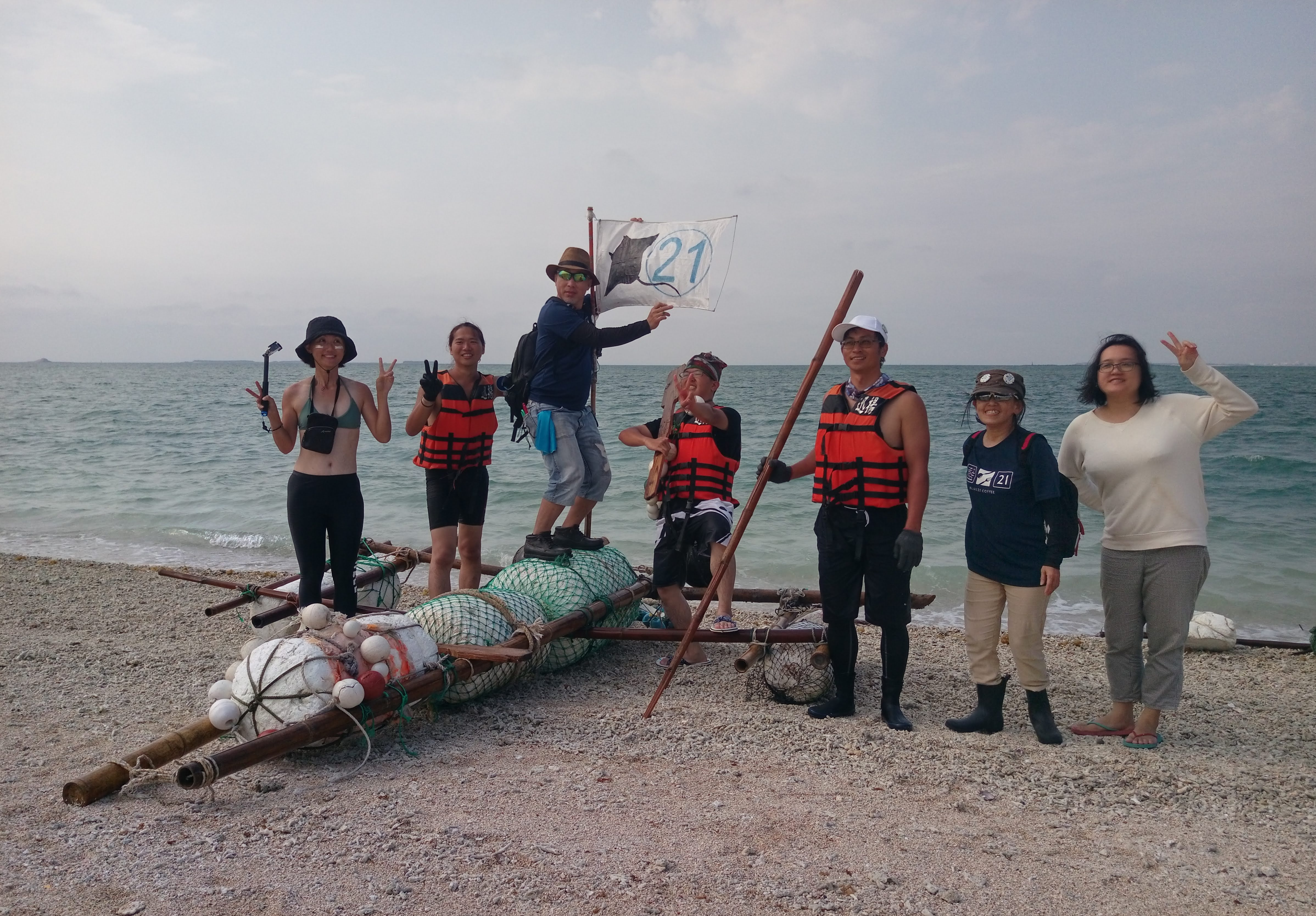 Boat Race of Marine debris, taken on April 14 2019